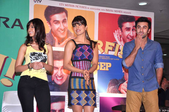 Ranbir & Priyanka promote 'Barfi!' at R City Mall